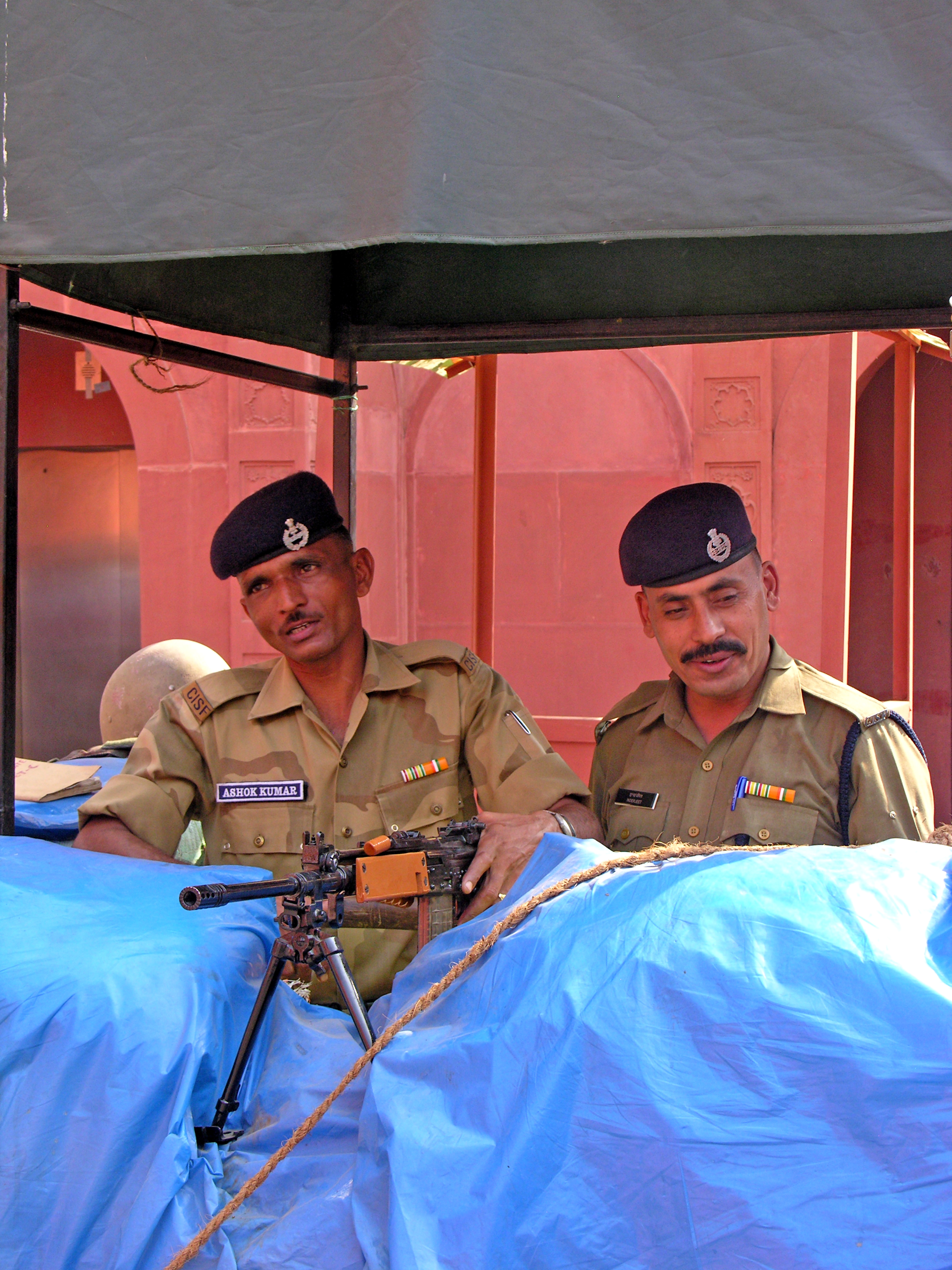 Red Fort - Once inside the gate there were more army personnel. Delhi, India